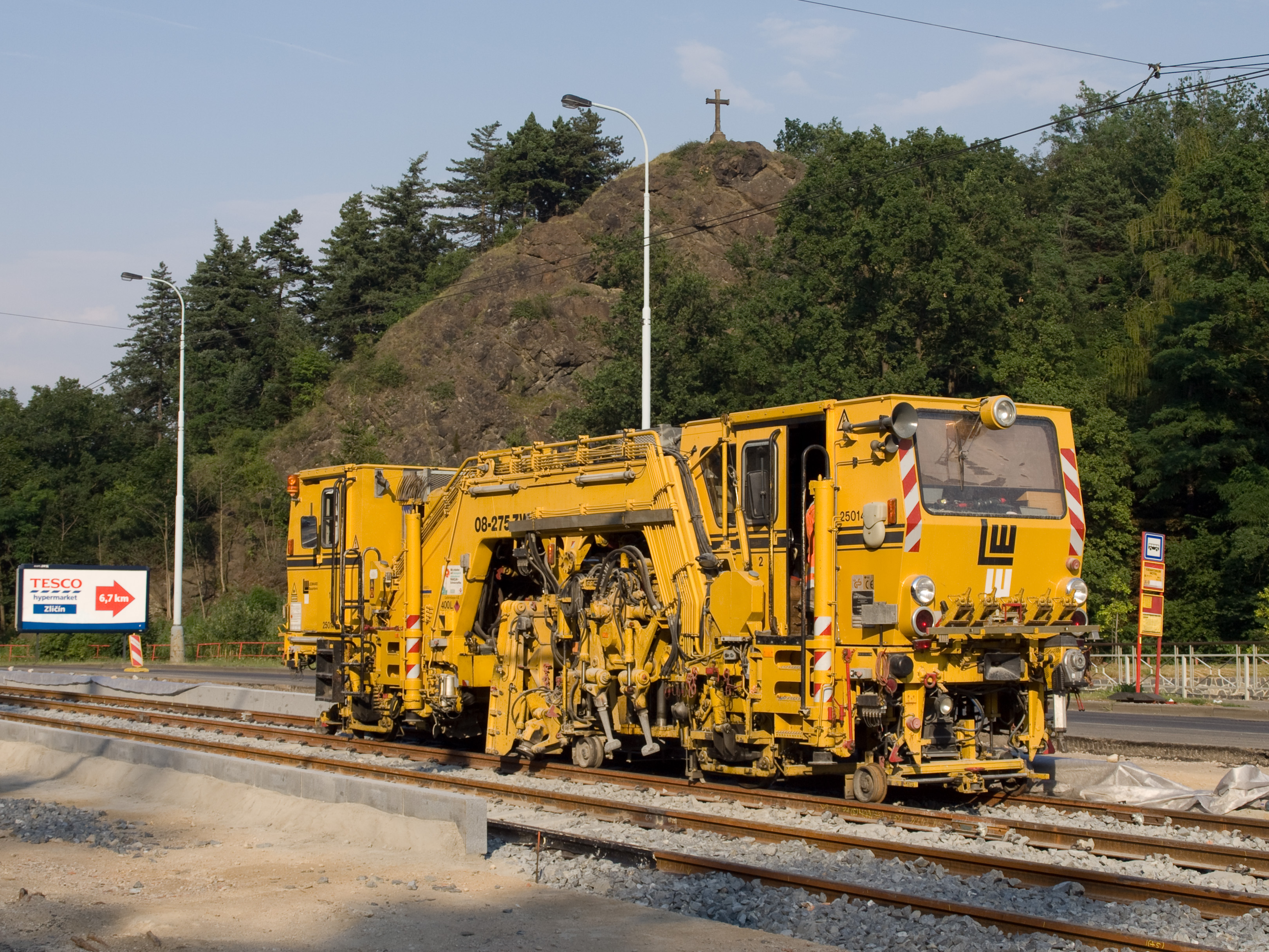 Plasser & Theurer 08-275 ZW of Leonhard Weiss near Krematorium Motol, reconstruction of tram track Anděl – Sídliště Řepy